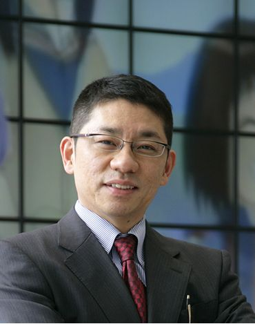 Kawaguchi standing in front of a large screen in Akihabara.